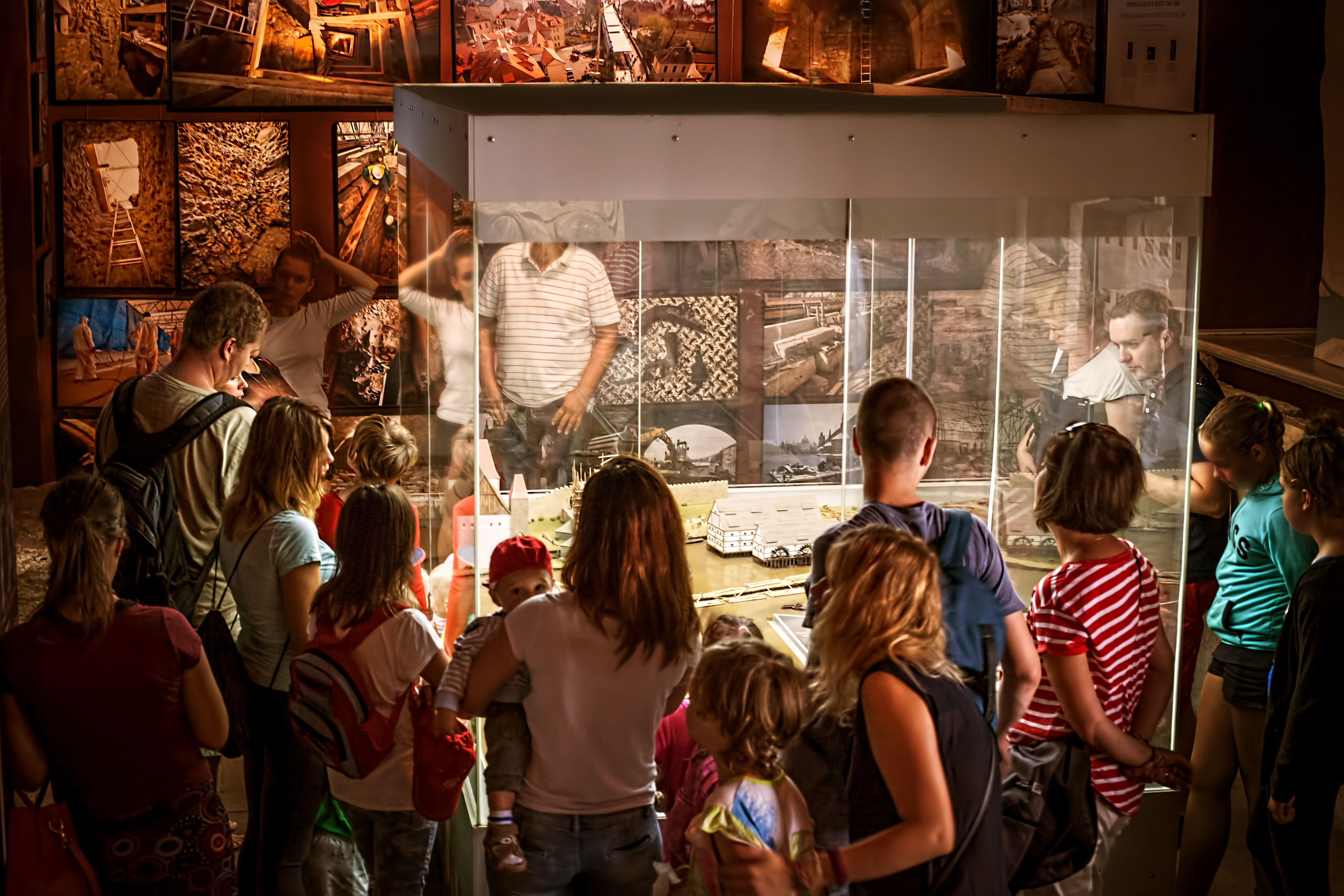 Museum of Charles Bridge